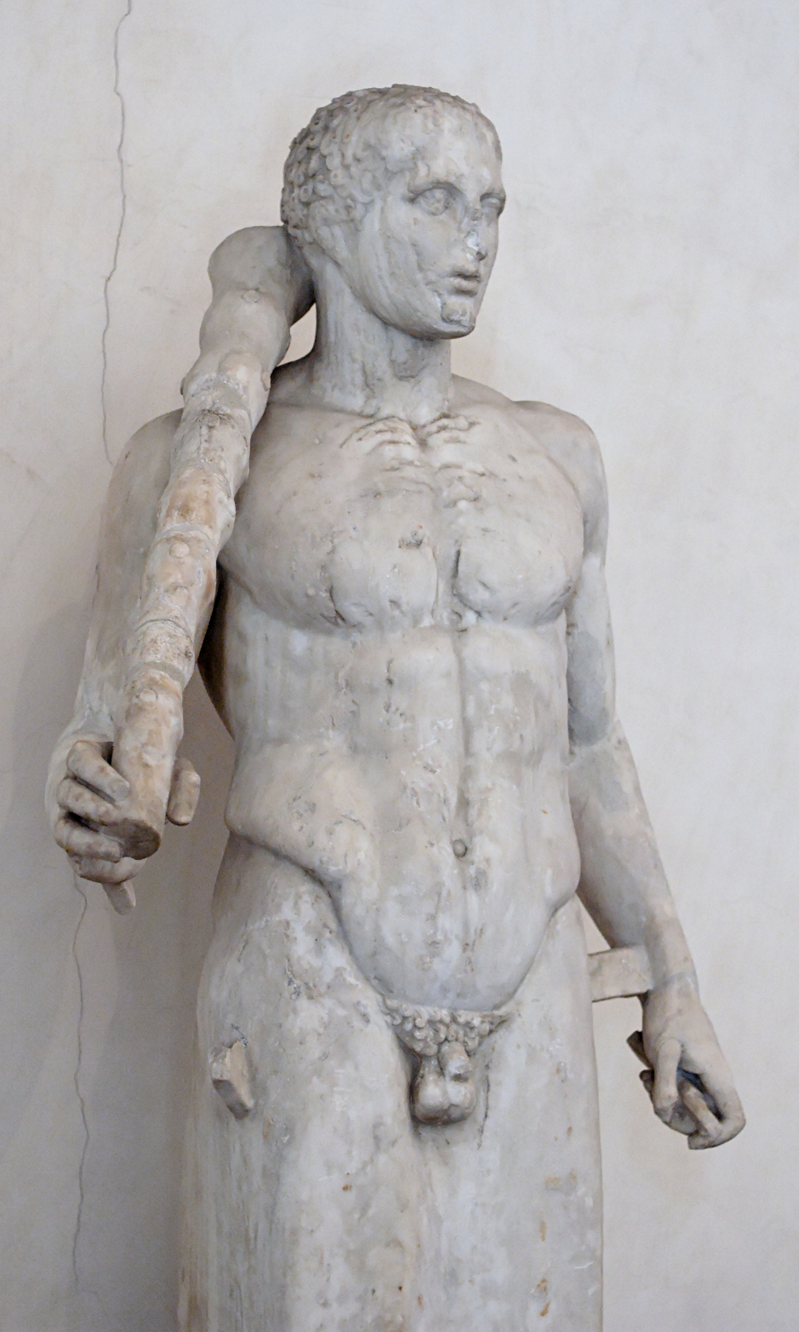 Herma representing Herakles with club. Pentelic marble, Roman artwork from the 2nd century BC after a Greek original of the 5th century. The worn surface of the statue is the result from long exposure to the elements.